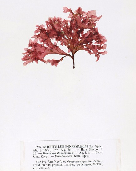 « Nitophyllum bonnemaisoni » = Haraldiophyllum bonnemaisonii